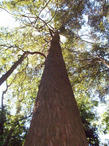 Brown Barrel at Macquarie Pass National Park, approx. 45 metres tall